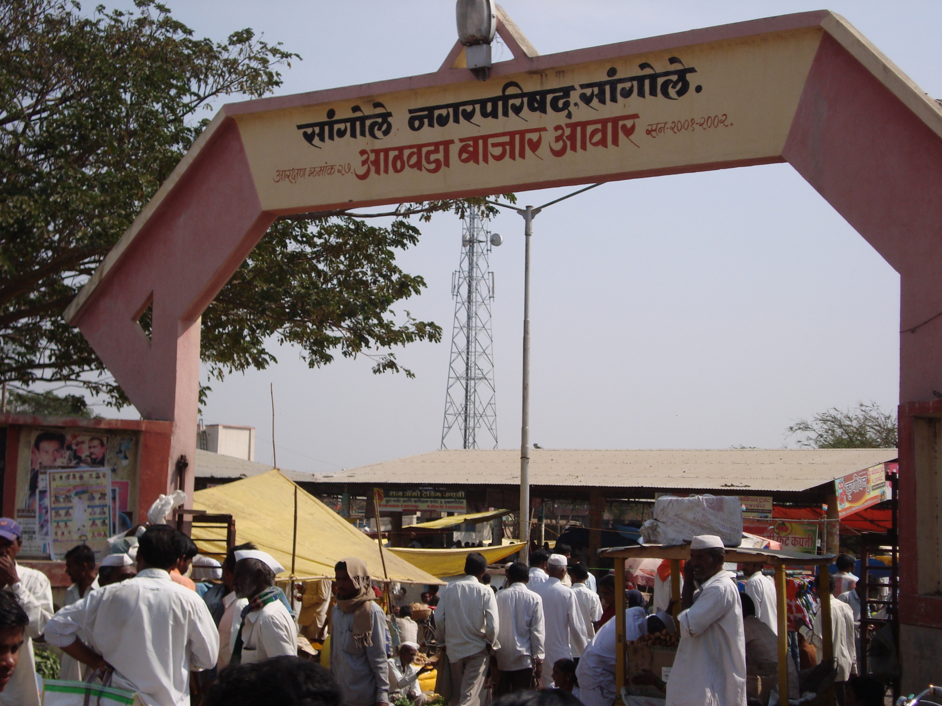 Weekly Market for vegetables and fruits